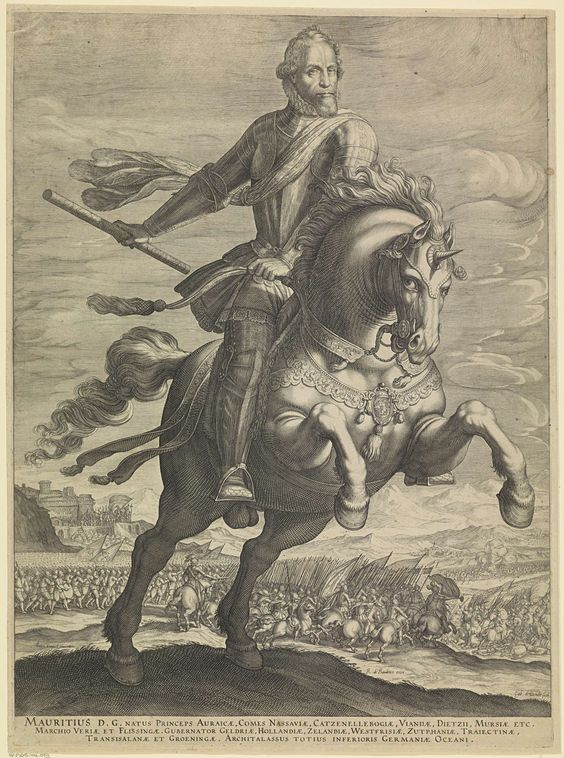 Equestrian portrait of Maurice, Prince of Orange by Egbert van Panderen, Robert de Baudous